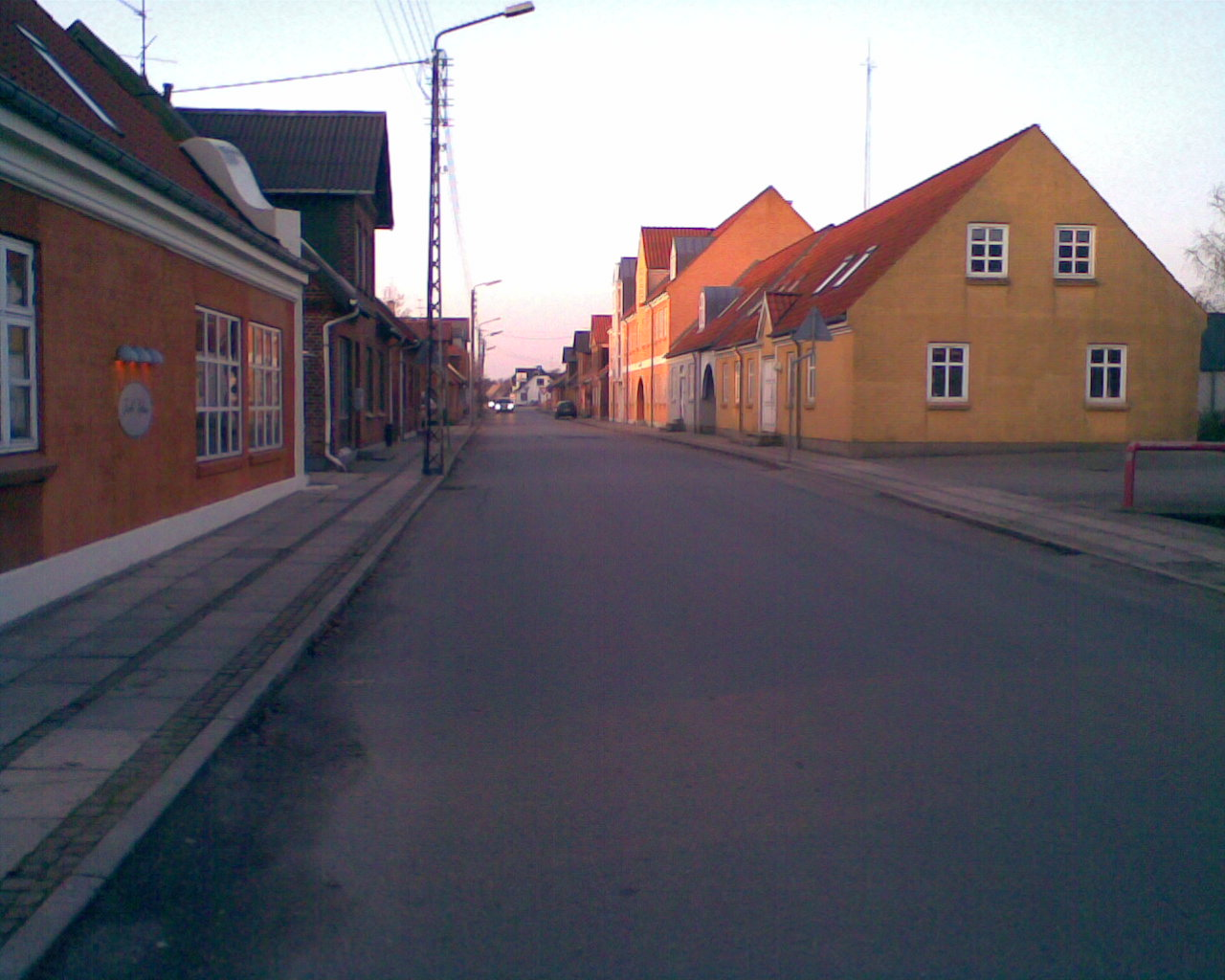 Thylandsgade, Bedsted, Thy, Denmark